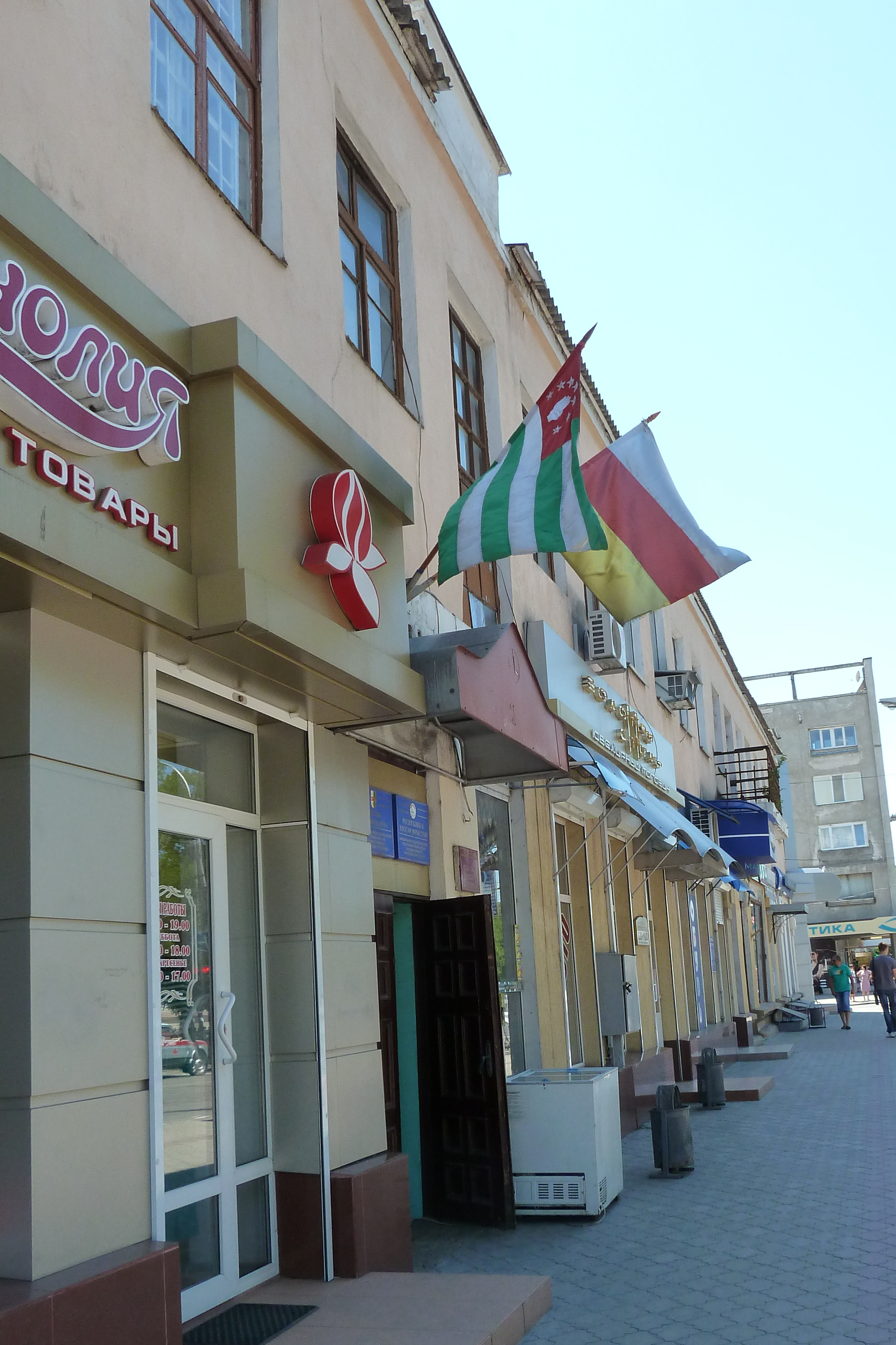 Representations of Abkhazia (representative office) and South Ossetia (consulate) in Tiraspol, Pridnestrovian Moldavian Republic (Transnistria)